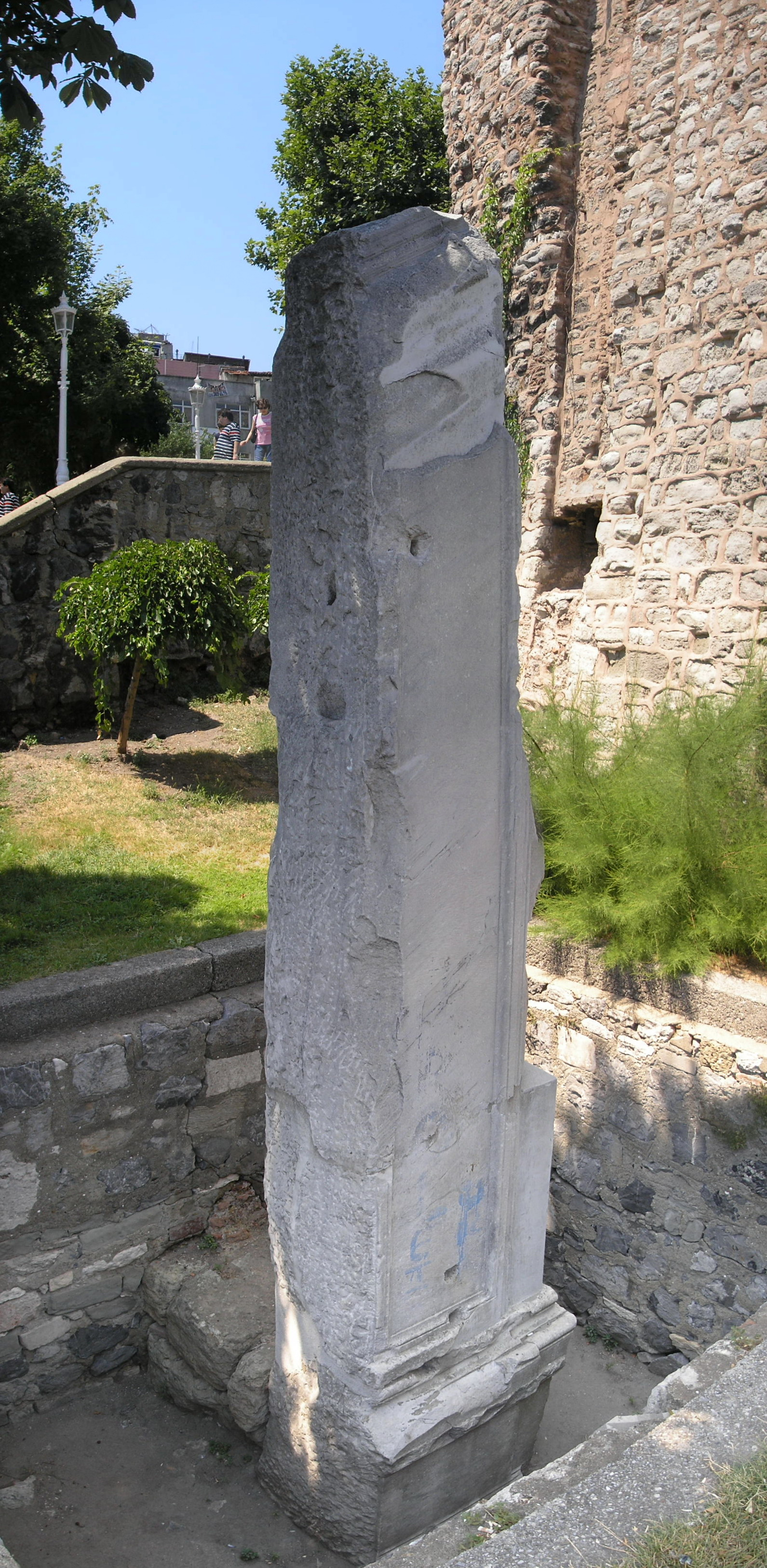 The milion of Constantinople, from which all the distances in the empire were measured. Located close to the Basilica Cistern.